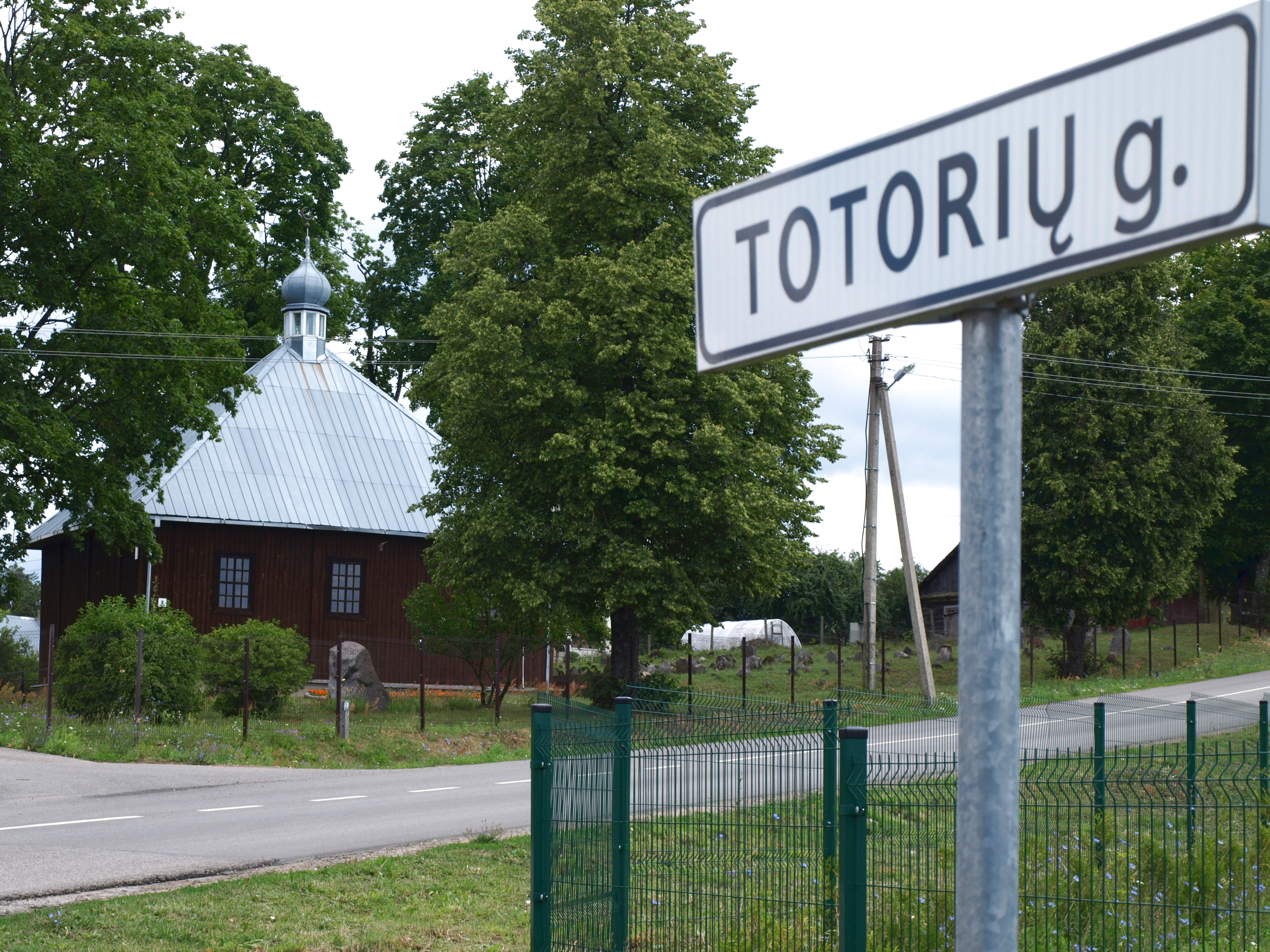 Tatar mosque and Tatar street in Keturiasdešimt Totorių village, Vilnius district, 2019 07